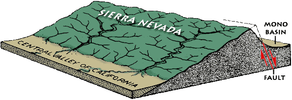 Illustration of Sierra Nevada fault block tilting up towards the west.